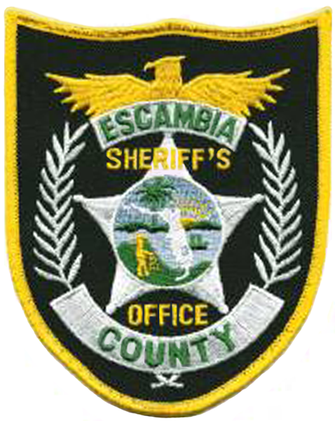 Patch